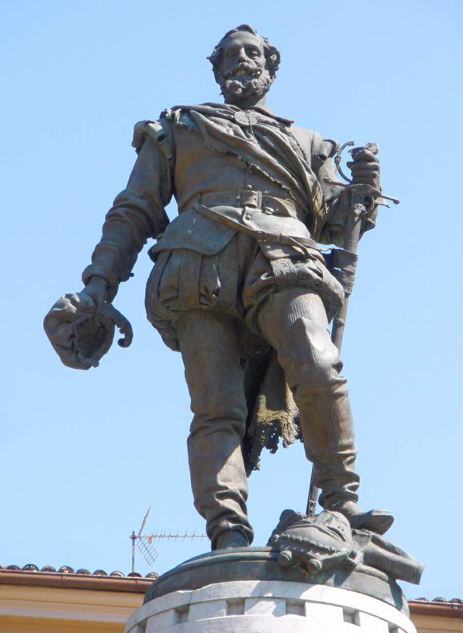 Monumento a Miguel López de Legazpi en Zumárraga